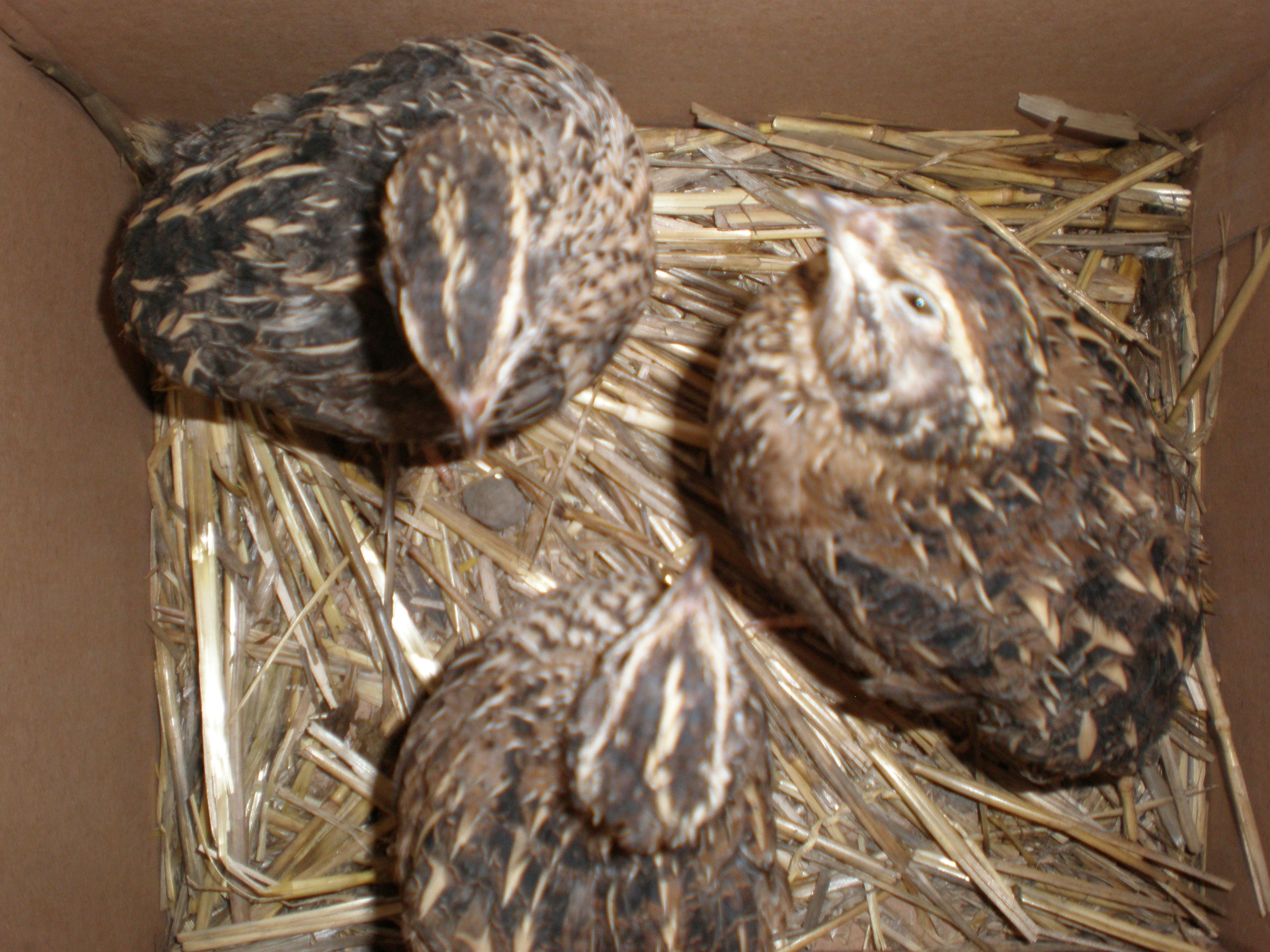 Three Japanese quails less than 1 year old.